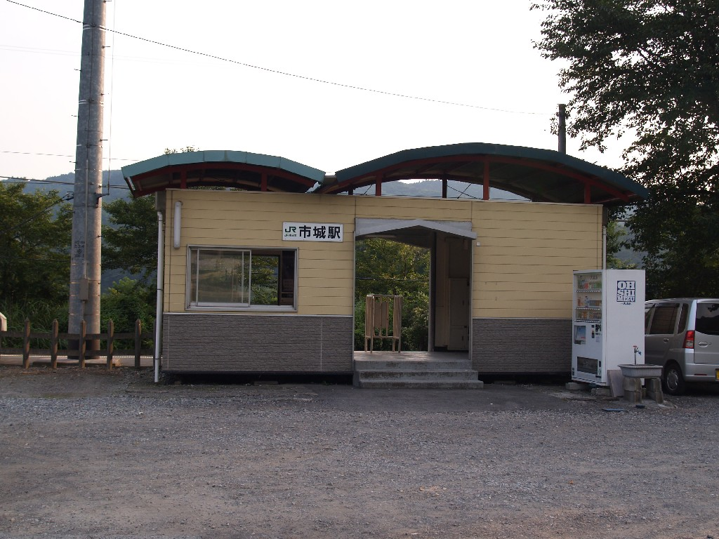 Ichishiro Station of the Agatsuma Line, Nakanojō, Gunma, Japan in August 2005